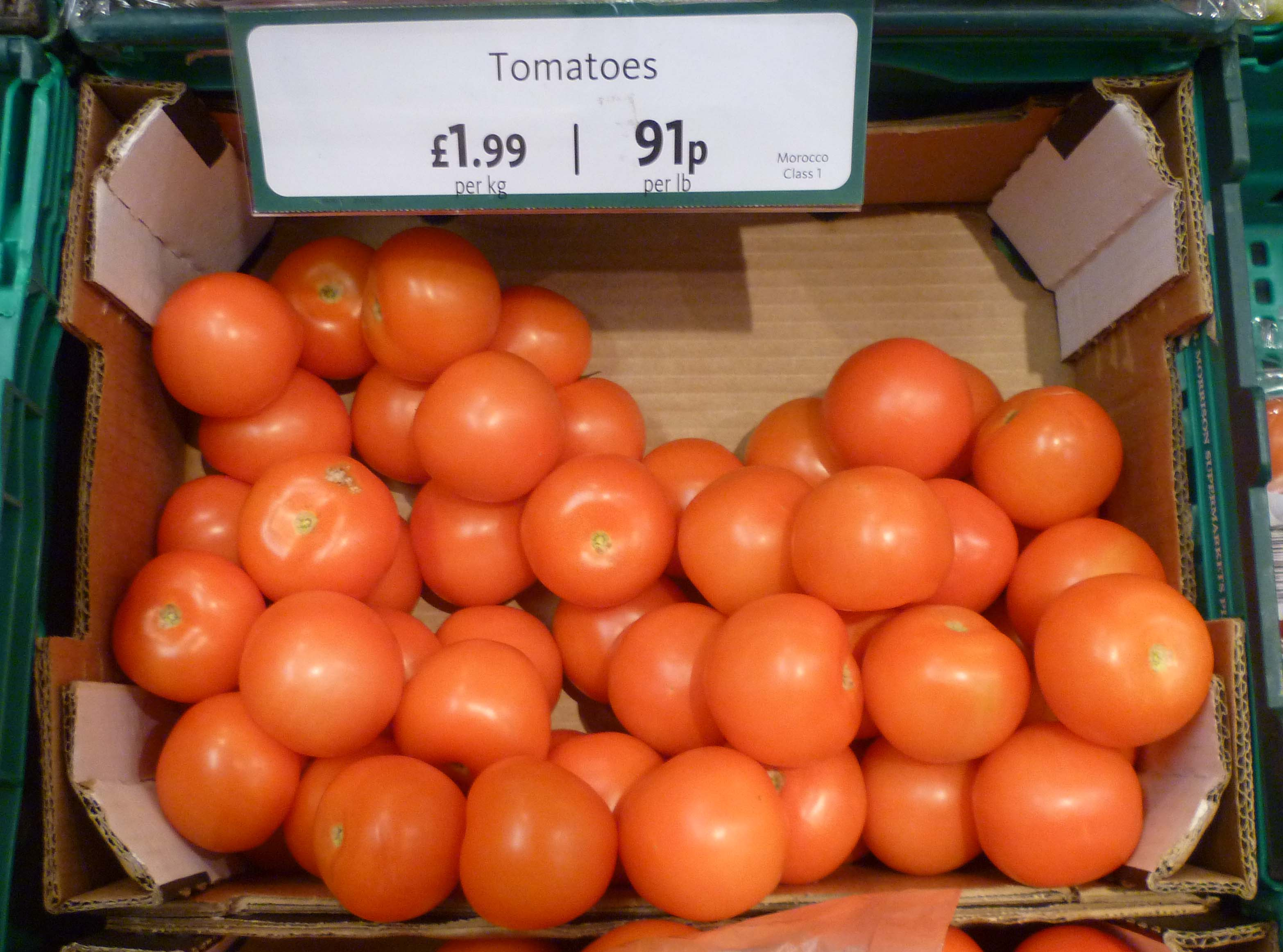 Tomatoes for sale in a UK supermarket 2013